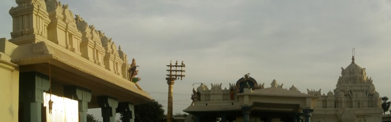 Sri Chennakesava Swami Temple, Vinjamur